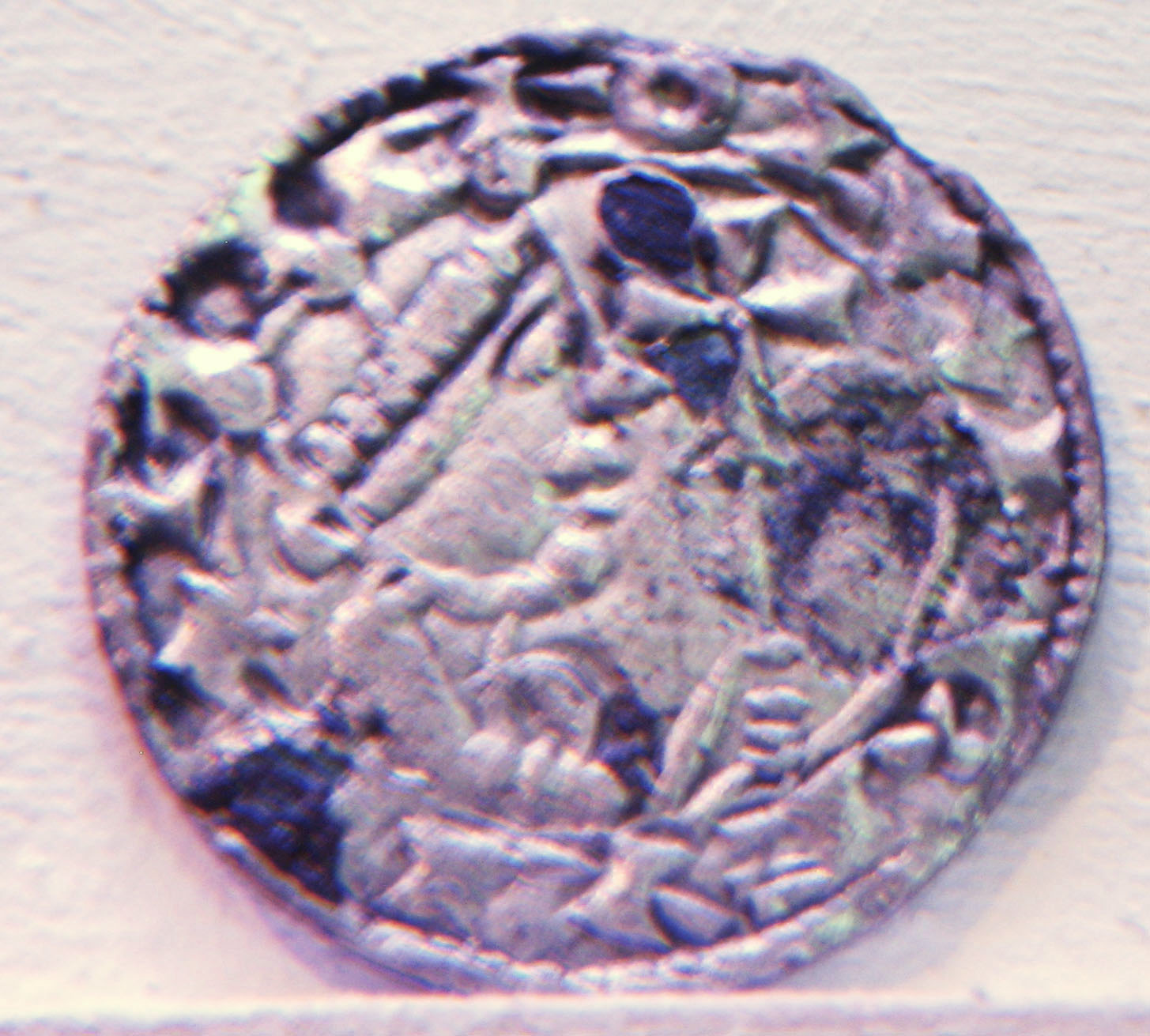 Coin depicting King Olaf I of Denmark, Olof Hunger (King 1086-1095). Photo taken at Lunds universitets historiska museum by the uploader.